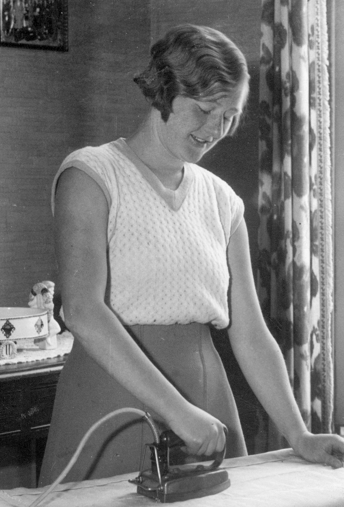 Maria Petronella "Puck" Oversloot (May 22, 1914 – January 7, 2009) at her home in Rotterdam